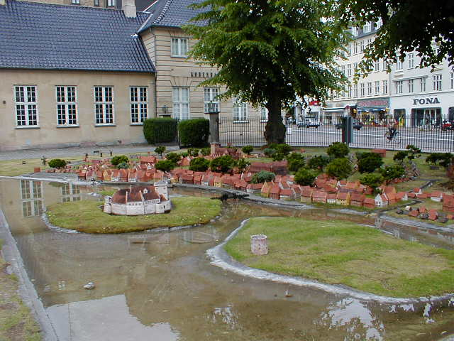 Diorama at the City Museum in Copenhagen, Denmark